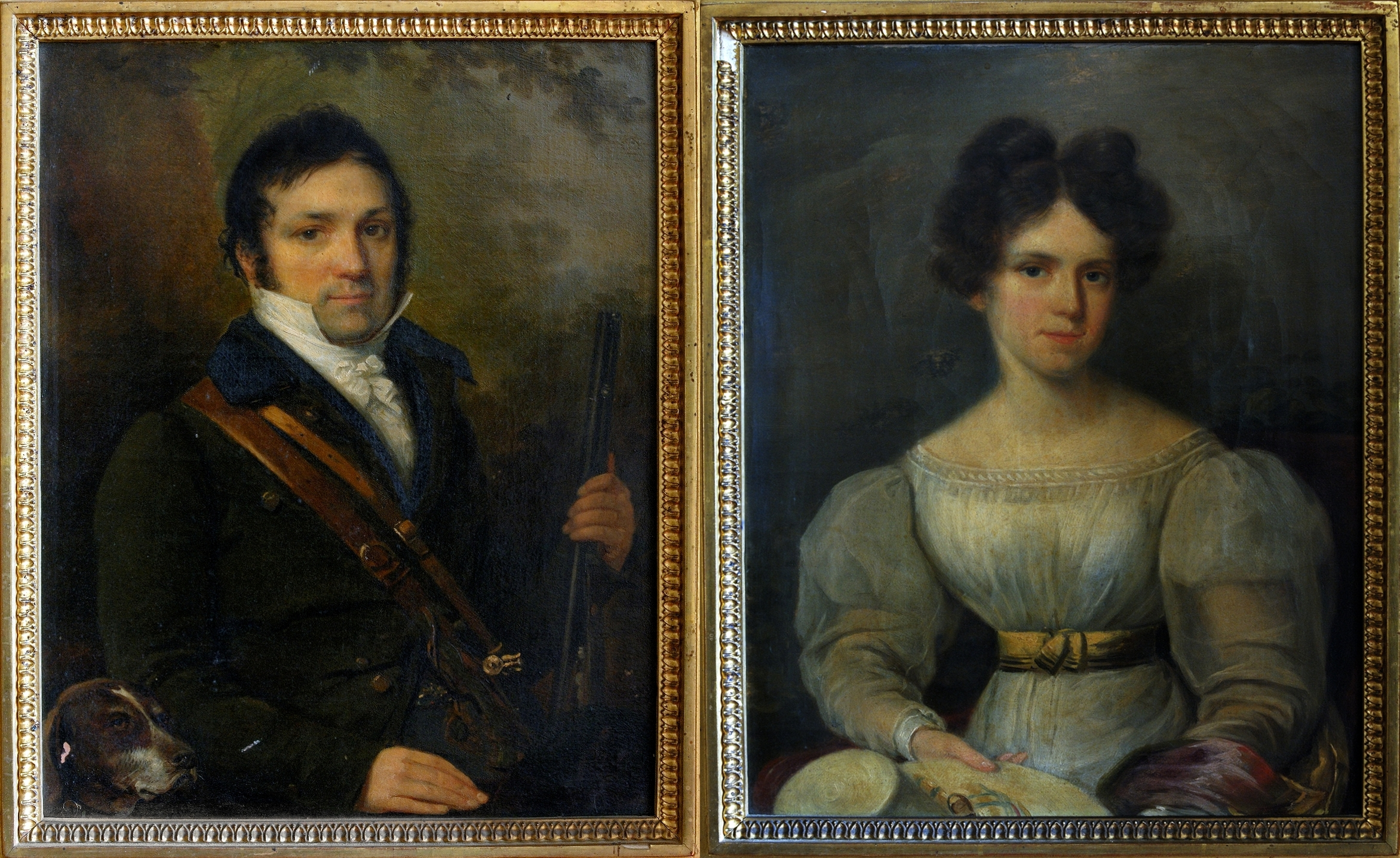 The portraits of Vincent-Henri-Albert Bridel (01.06.1790 – 1832) and his wife Louise-Julie (Neuhaus) Bridel. Vincent-Henri-Albert was a manufactor in Betrib Verdan. He married to a daughter of the city councilor Jean-Rodolf Neuhaus - Louise-Julie Neuhaus. He and his brothers got the citizenship of Bienne in 1828. Vincent-Henri-Albert owned the Rockhall palace in Biele. His and his wive's portraits were preserved by the family. They are the XIII genertaion of Bridel family.